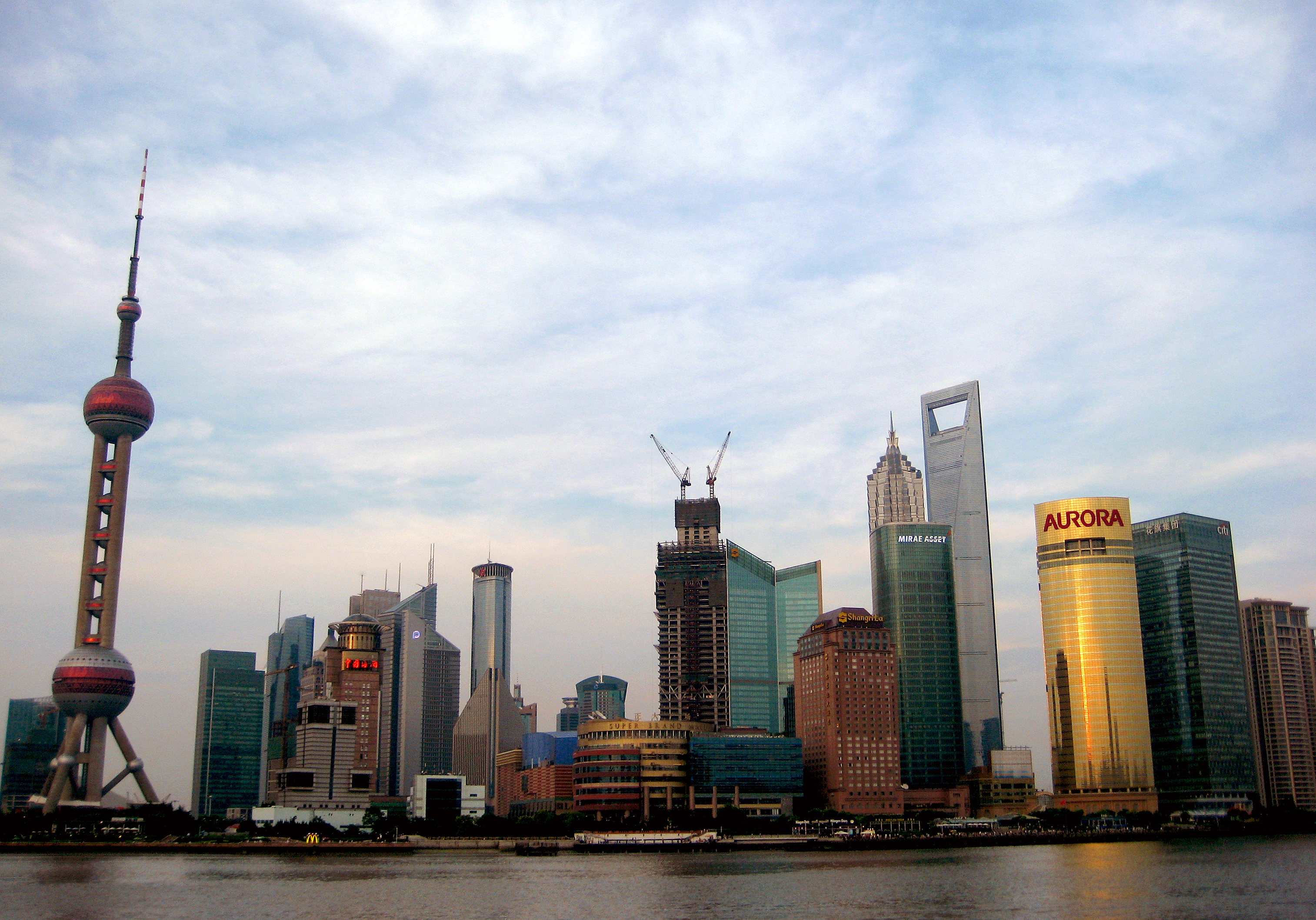 This is the view of Shanghai Pudong area from The Bund.